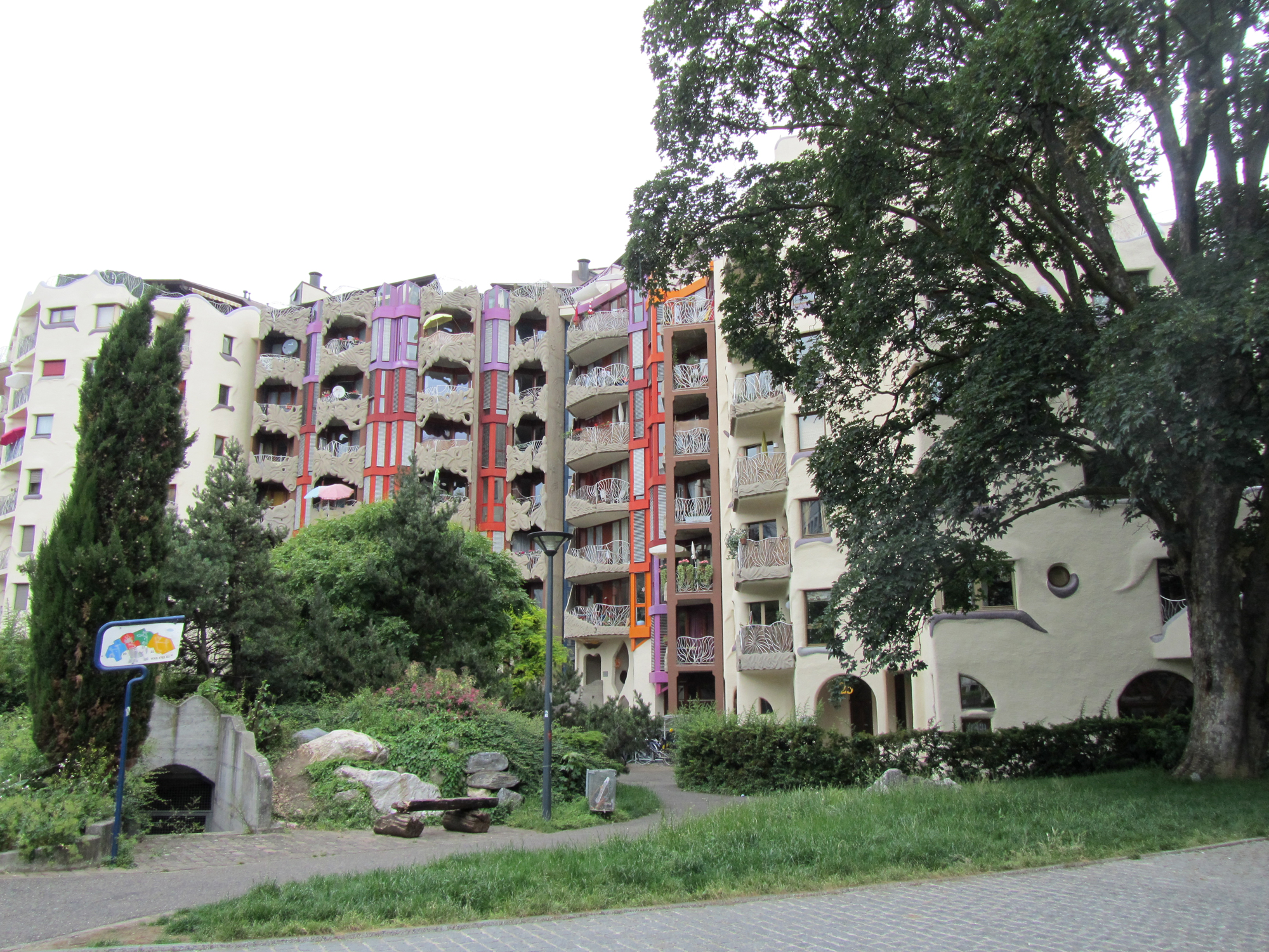 Apartment building at 23-29 Rue Louis-Favre in Quartier des Grottes, a neighbourhood of Geneva, Switzerland. The 1982-1984 building is nicknamed the Smurfs building.